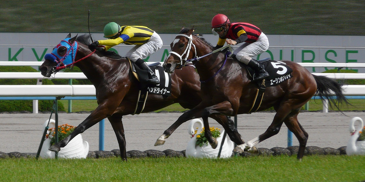 Headliner20110521(1)